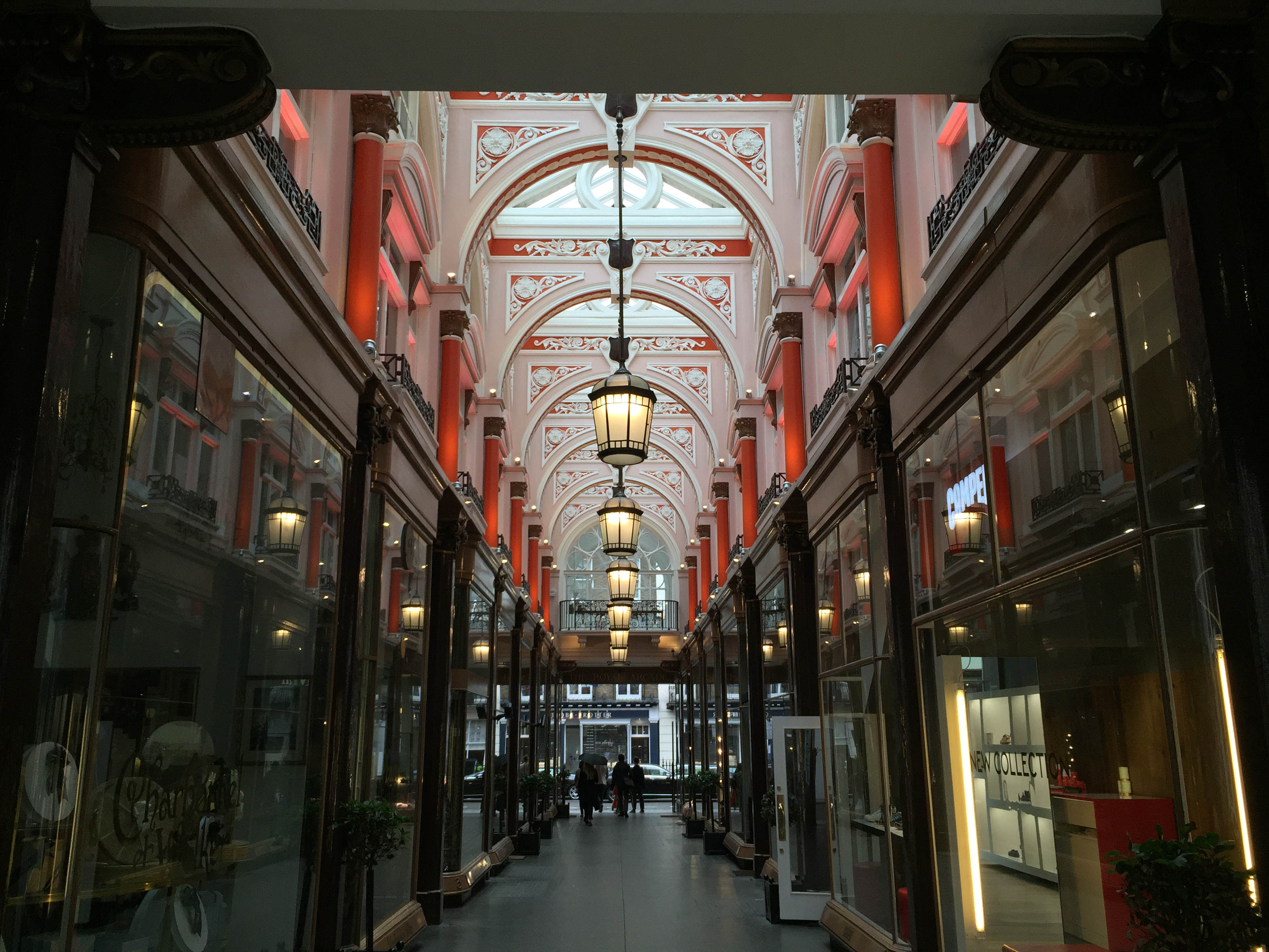 Interior of the Royal Arcade, London